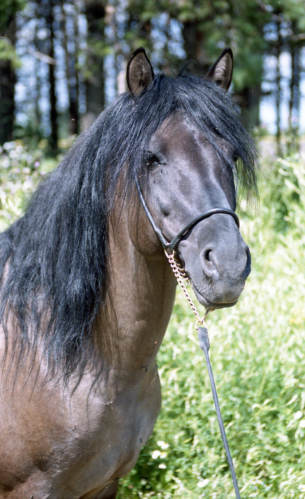 Vyatka stallion, Udmurtia region